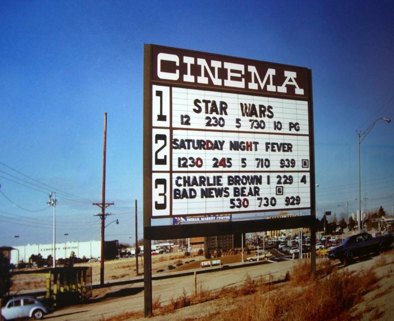 1977 cinema billboard advertising Star Wars